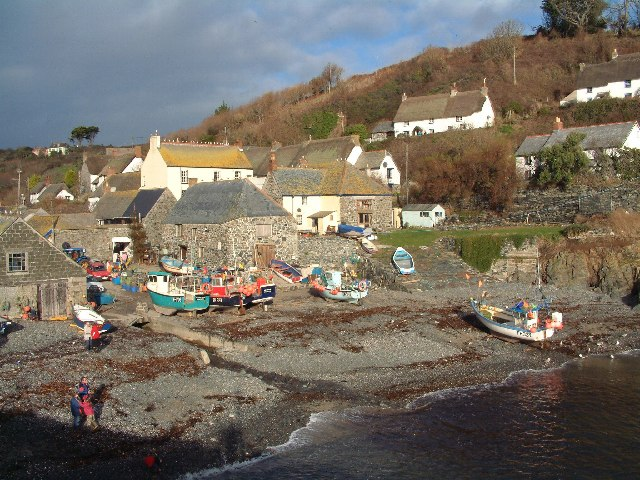 Cadgwith Cove. Not a true harbour, but the fishing boats are pulled up the beach.